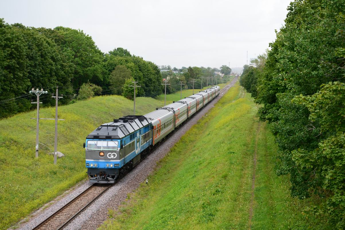 Night train 33 from Moskov and Saint Pietersburg near Rakvere in August 2019